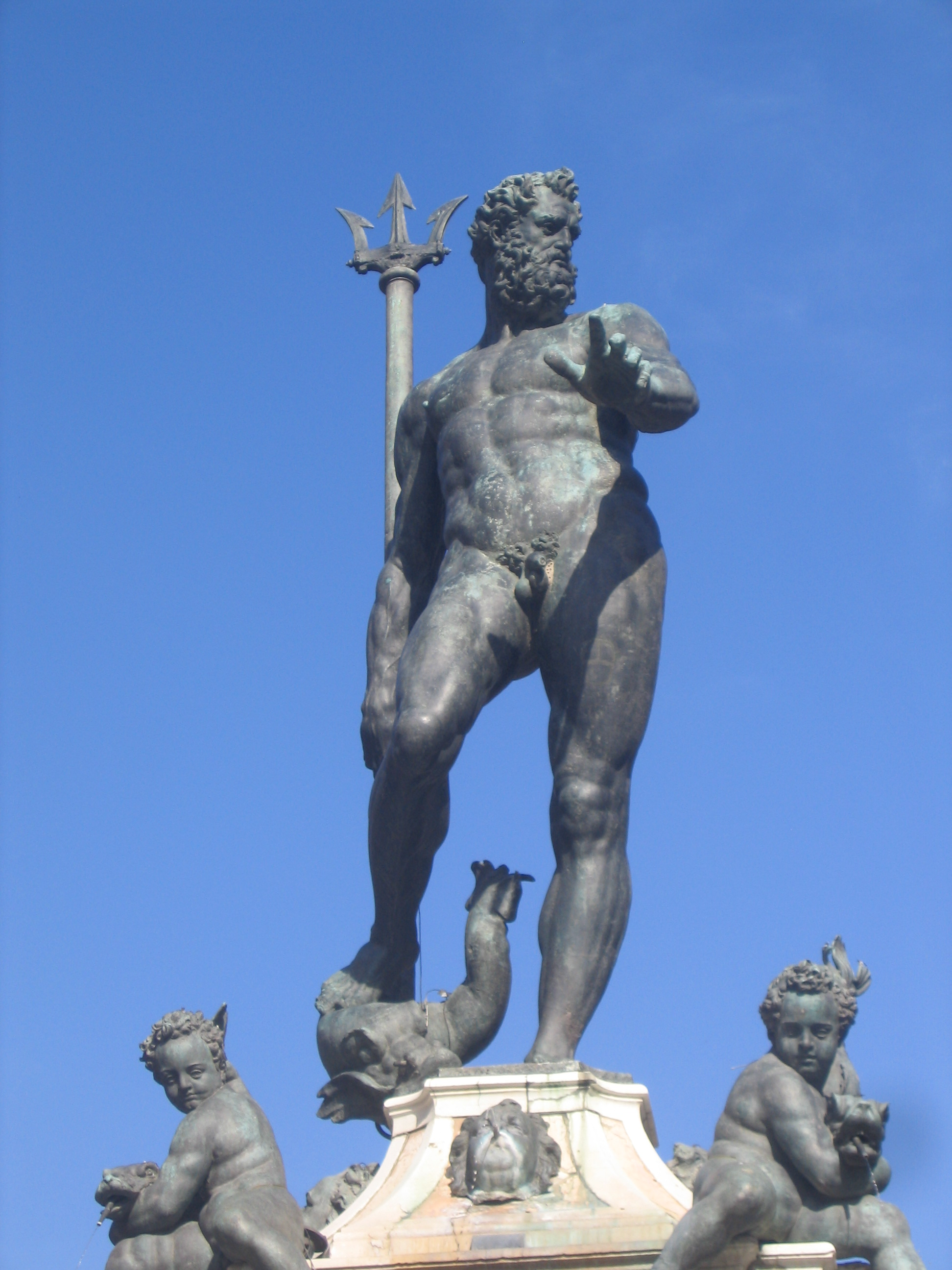 Neptune in the main square of Bologna, Italy.